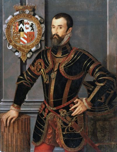 William Herbert, 1st Earl of Pembroke (c.1501-1570). Arms quarterly of 7: 1: Herbert with difference of a bordure componée gules bezantée and or, for illegitimacy of Sir Richard Herbert of Ewyas (d.1510), father of the 1st Earl); 2: Sable, a chevron between three lance heads argent (Bleddin ap Maenarch) (per A.P. Shaw) 3: Argent, three cockrels gules (Einion Sais and Gam, a Cradock heiress, per A.P. Shaw, "The Heraldic Stained Glass at Hassop Hall, co. Derby". Part I, published in Journal of the Derbyshire Archeological and Natural History Society; (Derbyshire Archaeological Journal), Volume 31, 1909, pp. 191-220, esp. pp.203-207, .[1]) (Source:[2]) 4: Argent, a lion rampant sable crowned or ("Arms of the valiant knight Sir John Morley", per File:Quarterings of 2nd Earl of Pembroke as recorded by York Herald, 1620.jpg, matched with File:Arms of 2nd Earl of Pembroke as recorded by York Herald, 1620.jpg) 5: Gules (azure?) semée of cross-crosslets three boar's heads couped argent (Cradock, for his mother Margaret Cradock, heiress of Candleston Castle, Glamorgan; Cradock was heir of Horton)) 6: Argent, three bends engrailed gules a canton or (Horton of Candleston Castle, Glamorgan, and of Tregwynt, Pembrokeshire, heir of Cantilupe) 7: Gules, three leopard's faces jessant-de-lys or (de Cantilupe of Candleston Castle, Glamorgan; as for Cantilupe (modern) feudal barons of Eaton Bray in Bedfordshire)